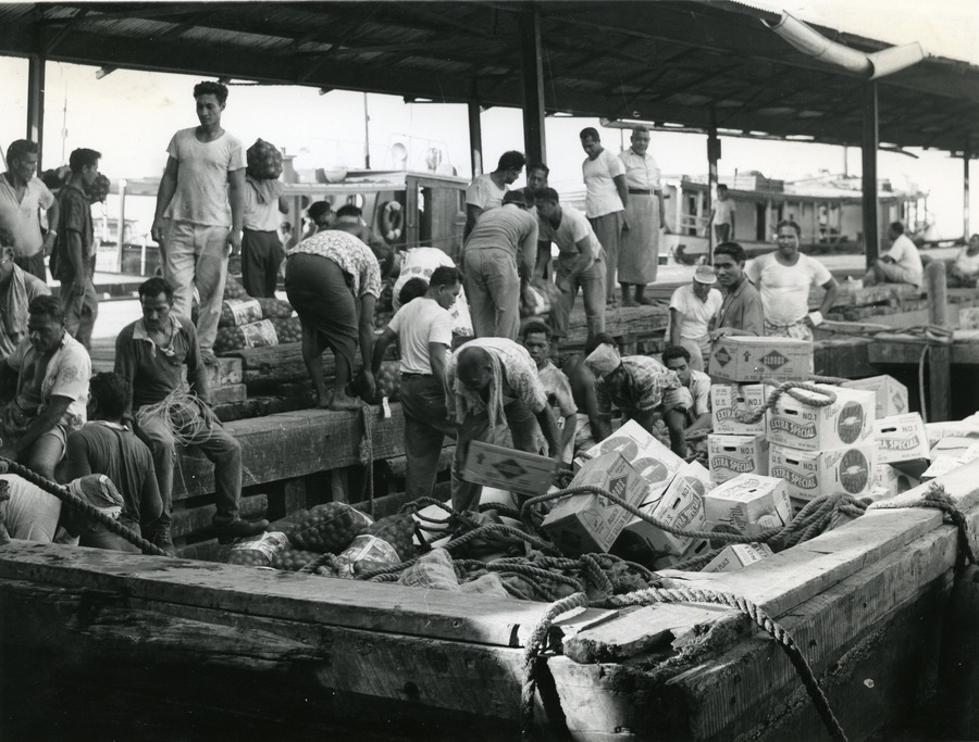 Unloading lighter at Apia Wharf, Samoa, around 1975-85. Archives Reference: AAEG 7398 W4835 Box 7/ XVIII Material from Archives New Zealand